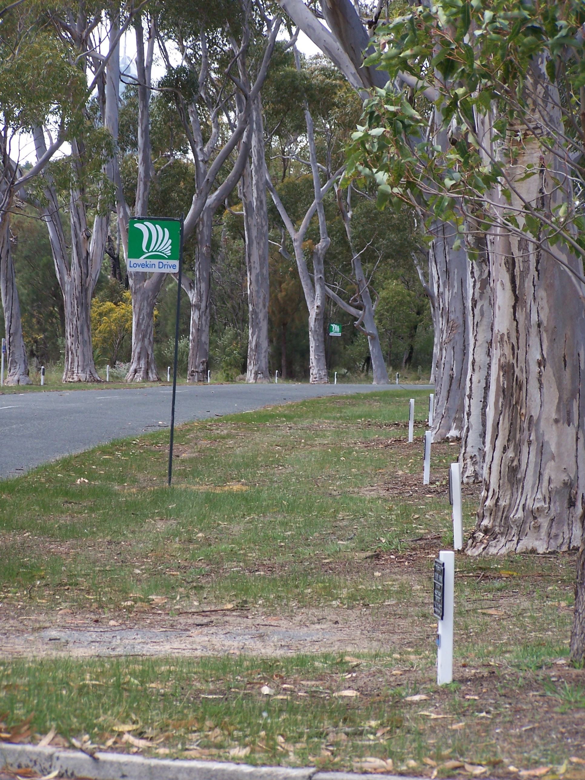 Lovekin Drive Kings Park, showing trees with plaques in front to fallen Western Auatrlian servicemen